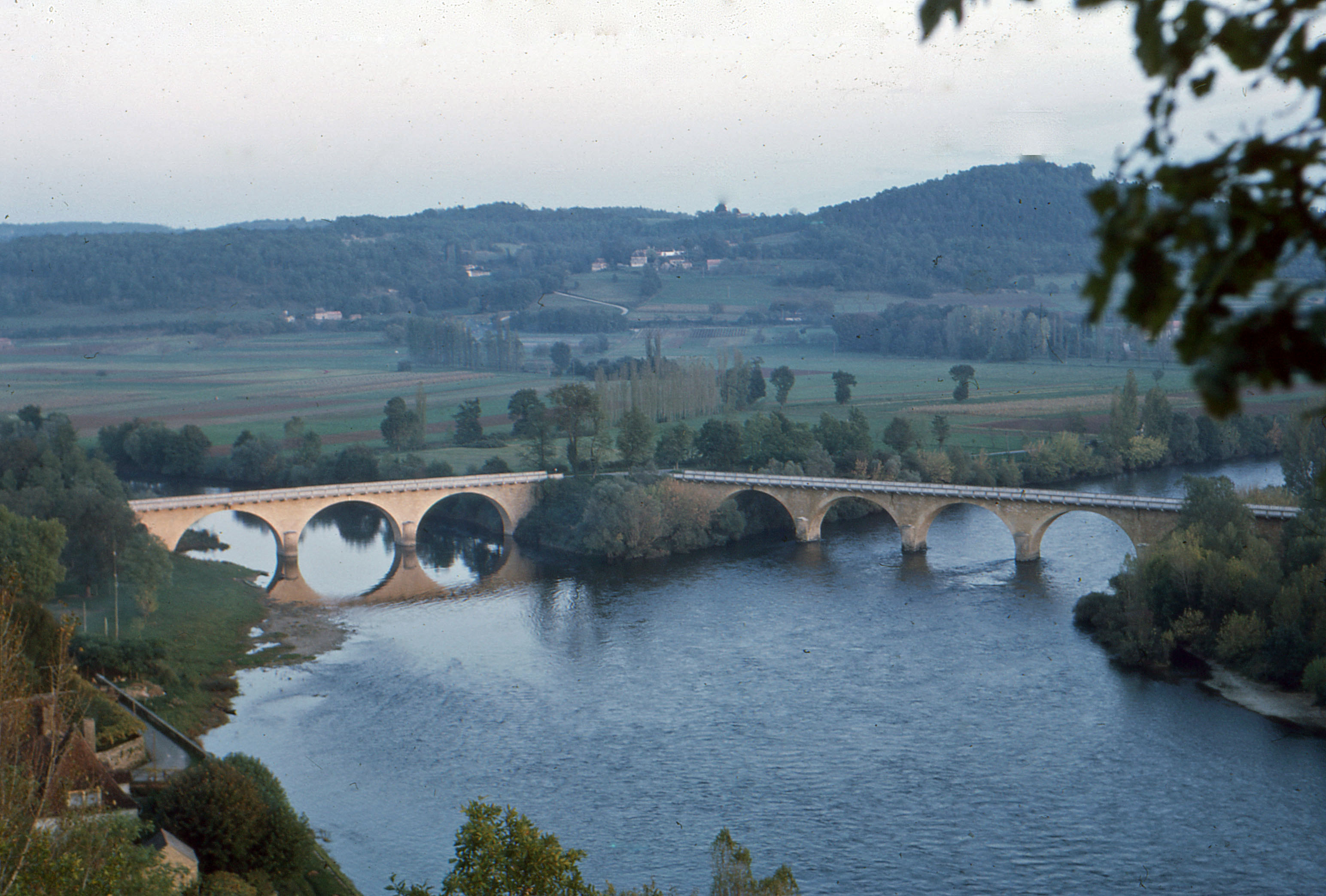 Confluence of the Vezere and Dordogne.